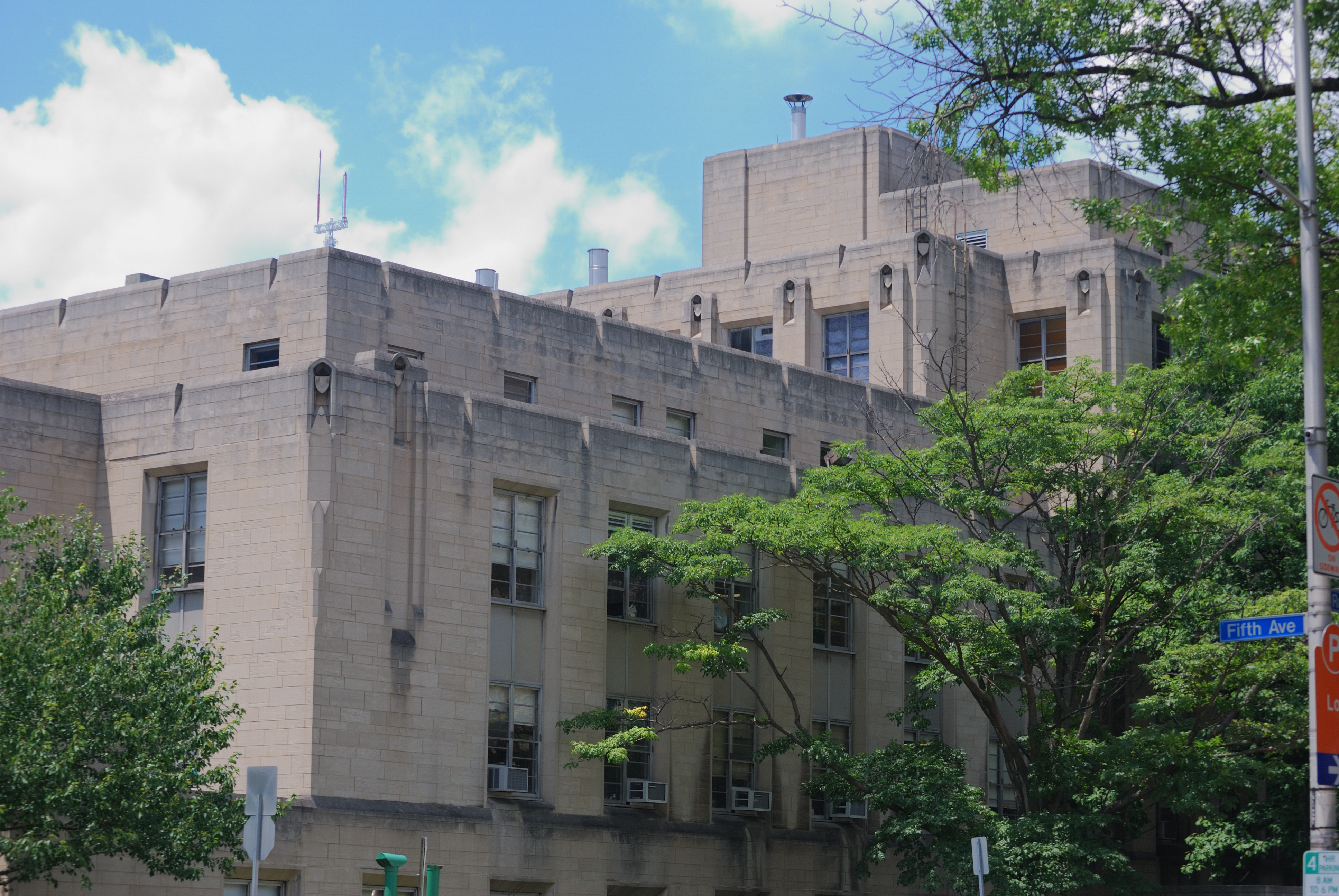 Yup, this is the building I will be spending the next 4-5 years in... wish me luck!